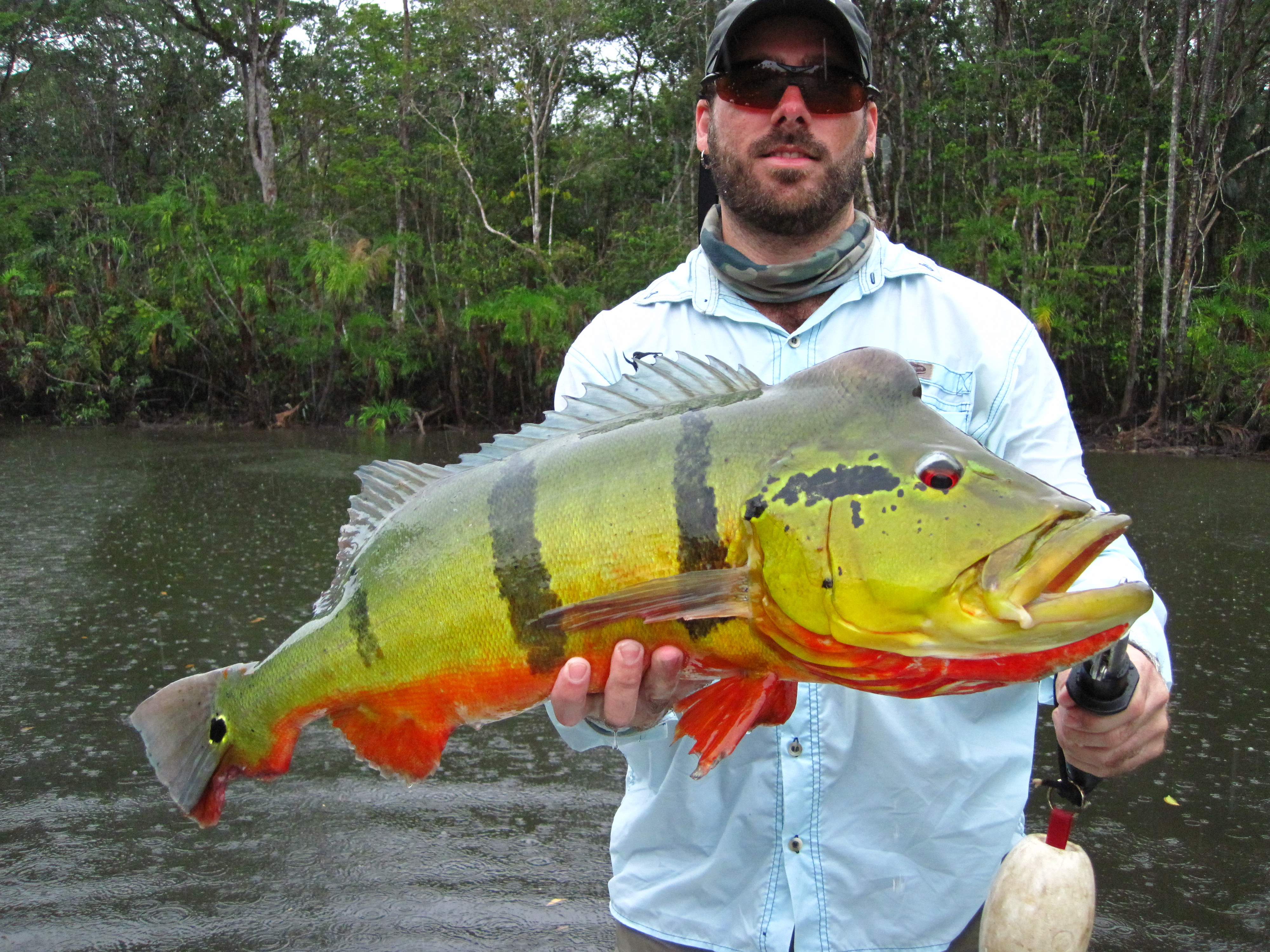 Sport fishing in the Brazilian Amazon will